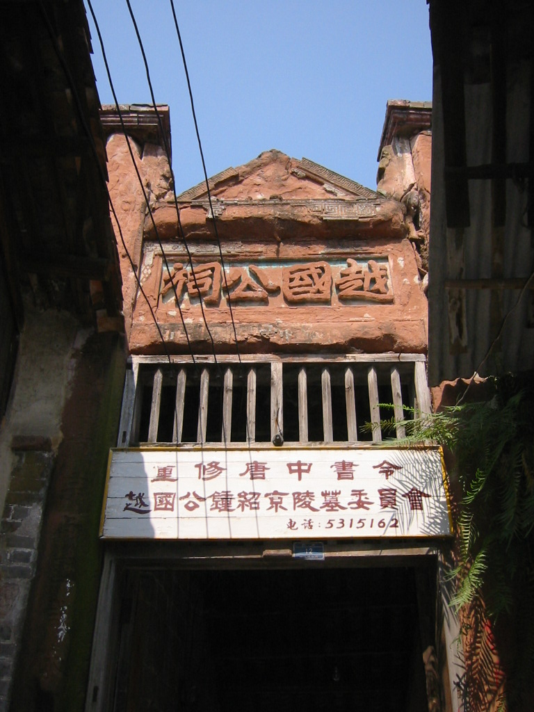 The ancestral hall of Yue Guogong in Xingguo County, Jiangxi Province.